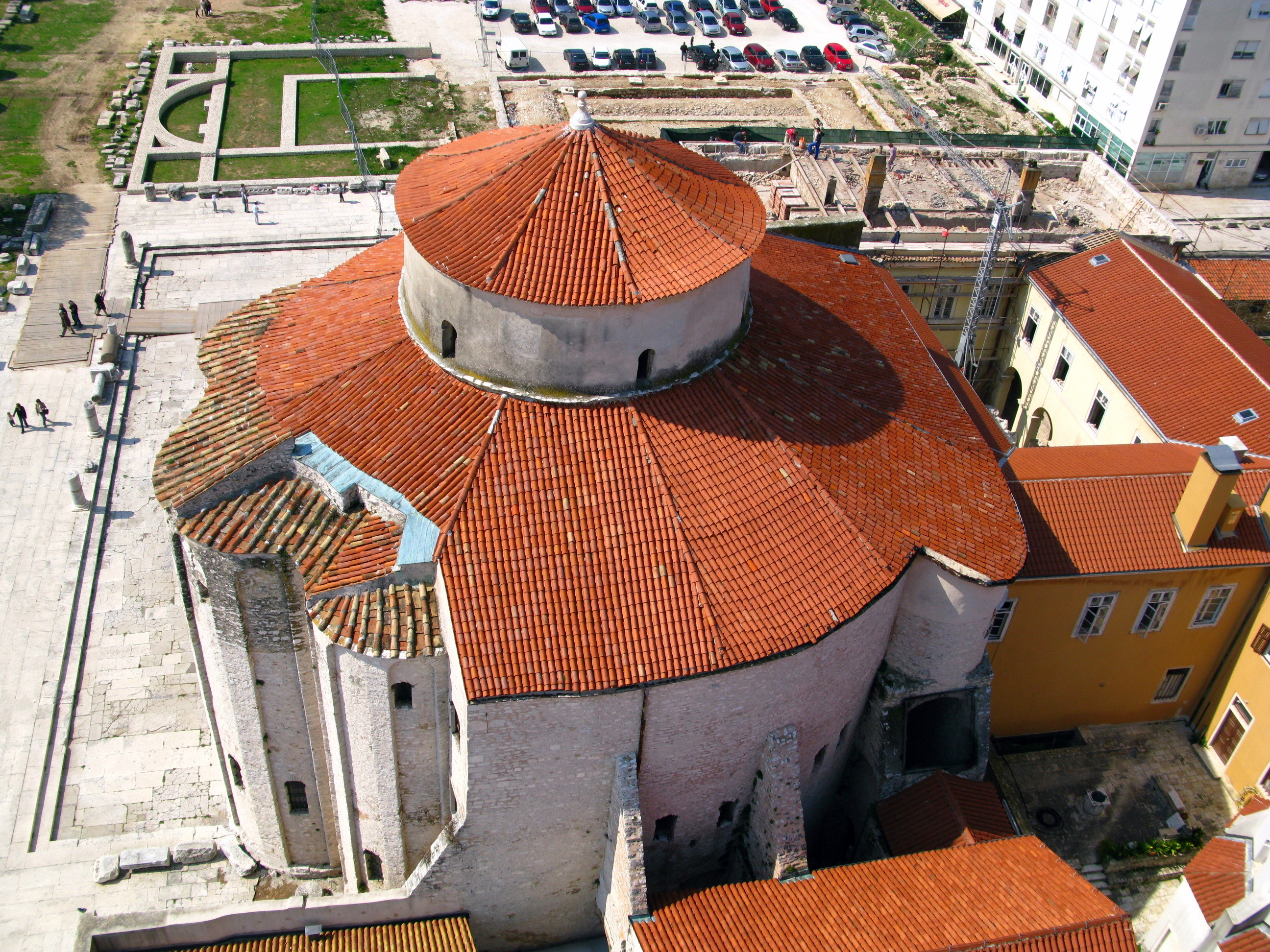 Church of St. Donatus in Zadar / Croatia / Adriatic Sea.